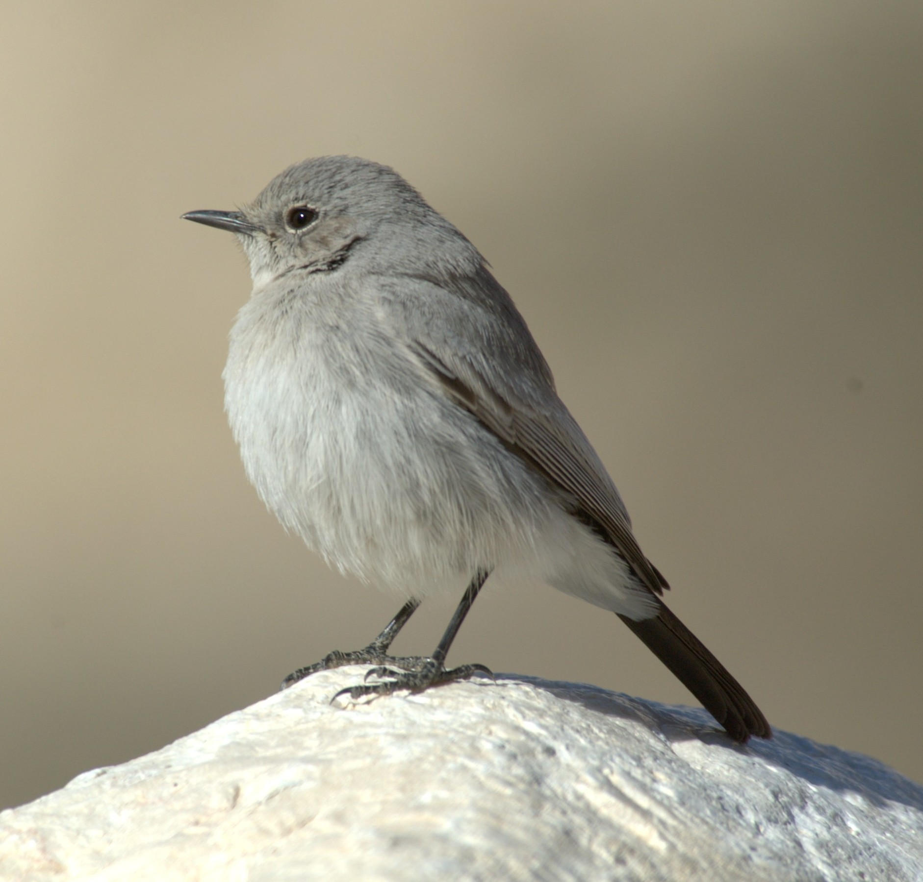 Cercomela melanura